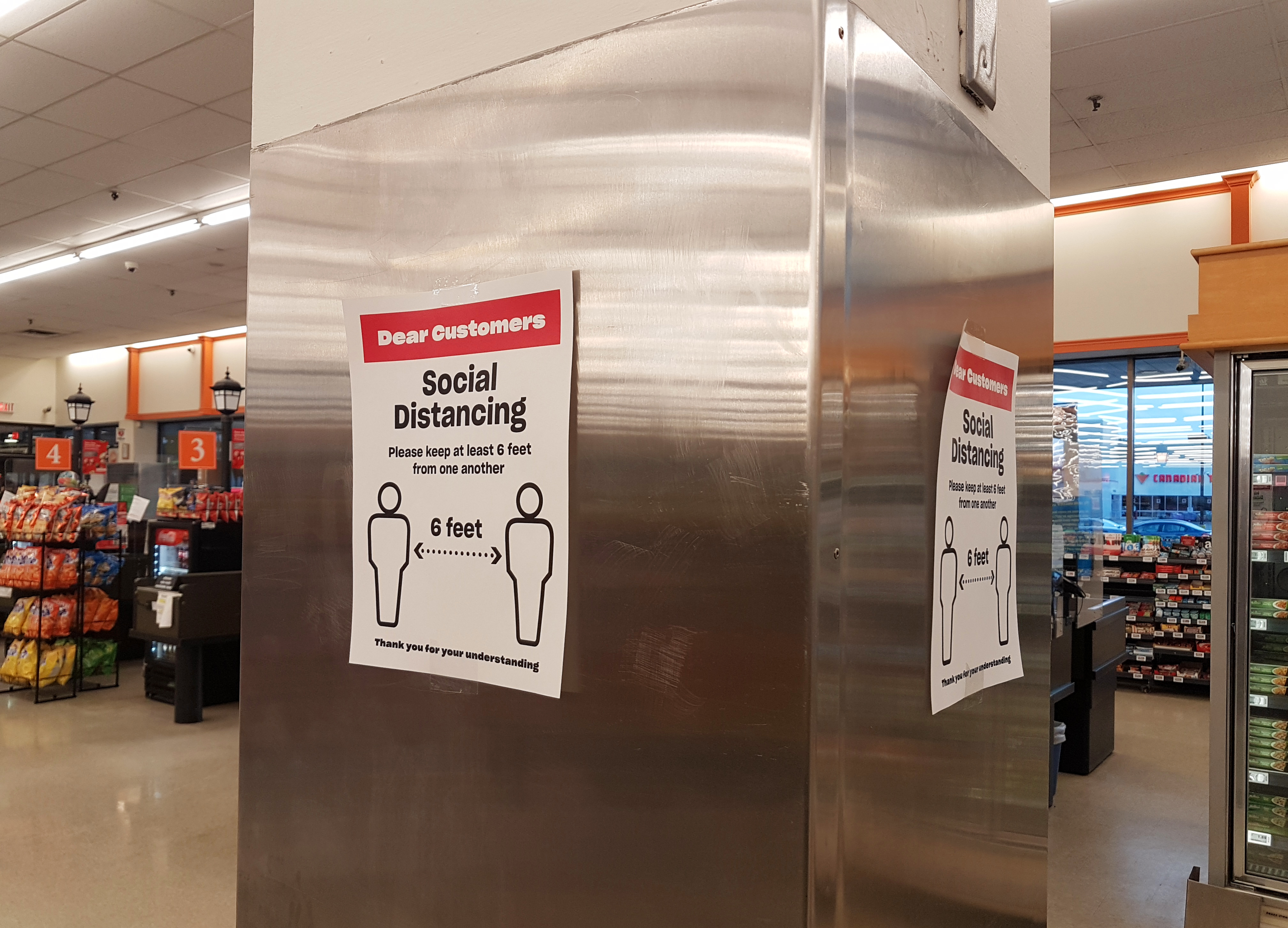 DOCUMENTING A PANDEMIC - A photo album Signs reminding people to social distance at an Atlantic Superstore grocery store on March 30, 2020, in Halifax, Nova Scotia, Canada, during the coronavirus and covid-19 pandemic.